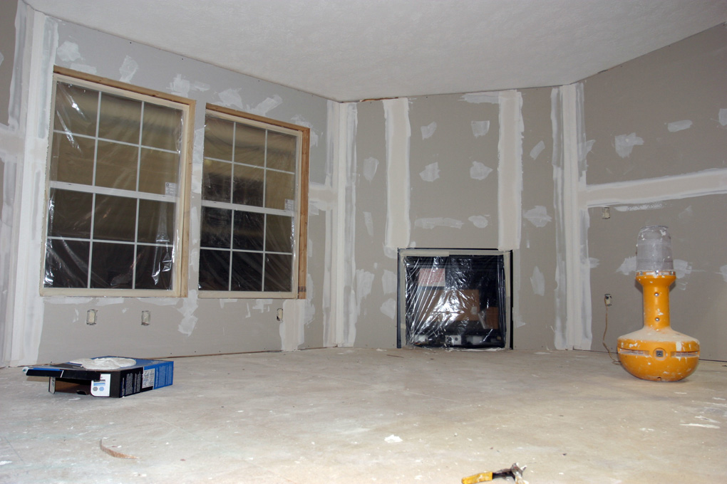 Manufactured home ready for interior drywall installation